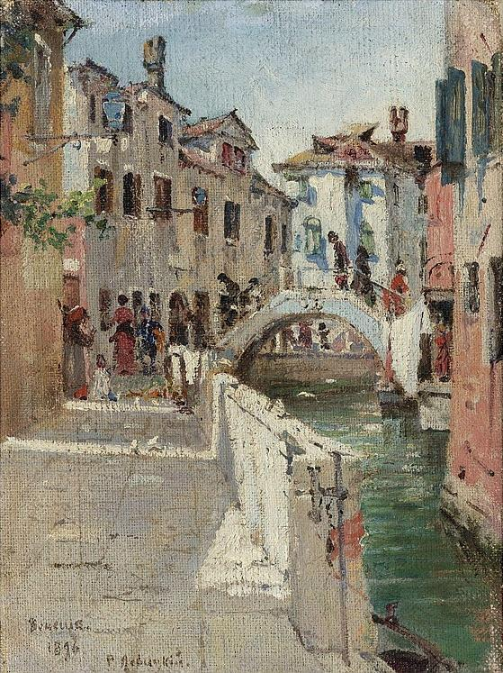 Morning Impression along a Canal in Venice, oil painting by Rafail Sergeevich Levitsky (1847 - 1940)